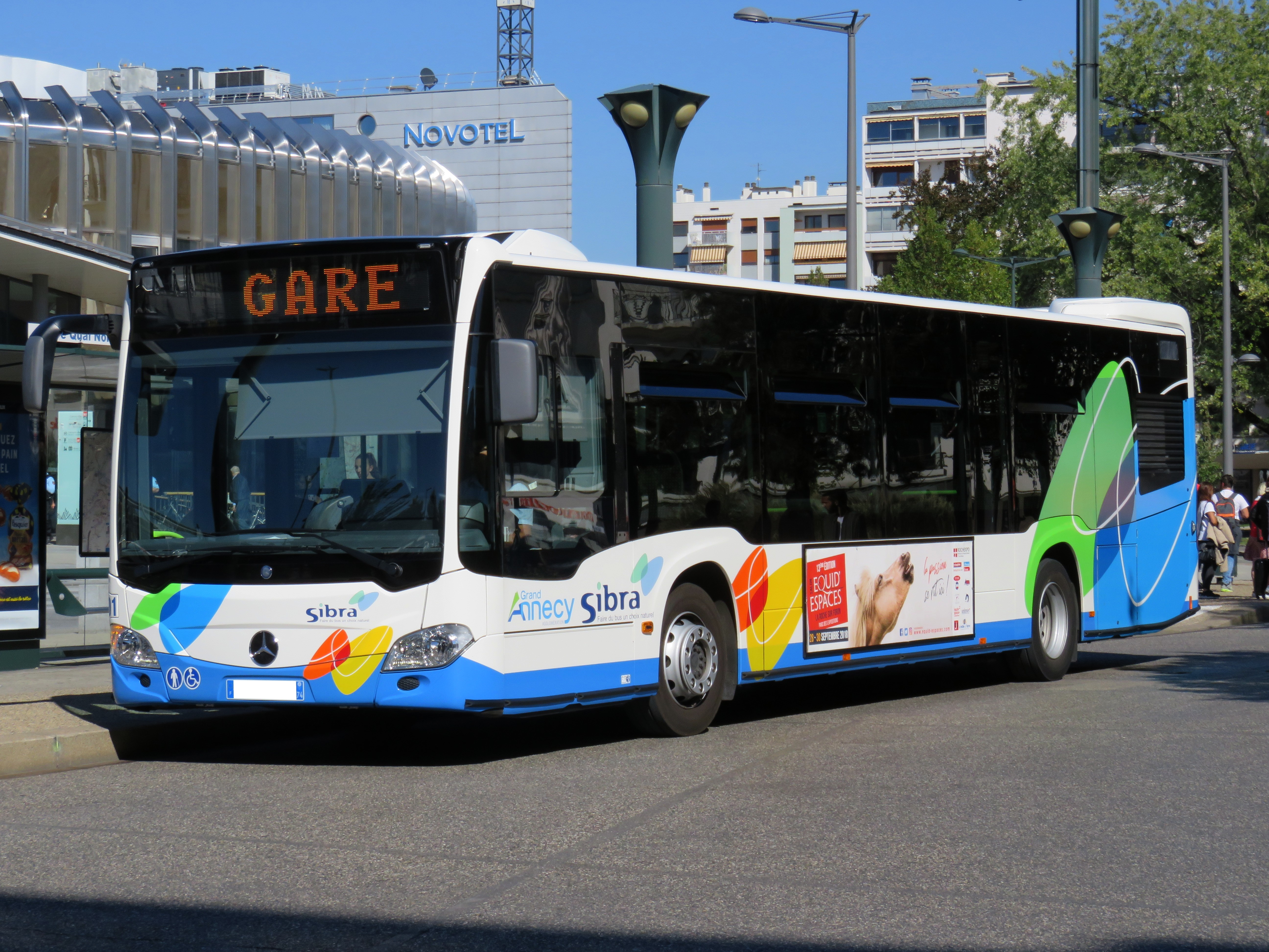 A Mercedes-Benz Citaro C2 (n°401 of the SIBRA), carrying out the line 7 of the bus network Sibra — Grand Épagny, Epagny Metz-Tessy↔Gare Quai Nord, Annecy — and stopped at the call Gare Quai Nord (Annecy, France) on September 26, 2018.